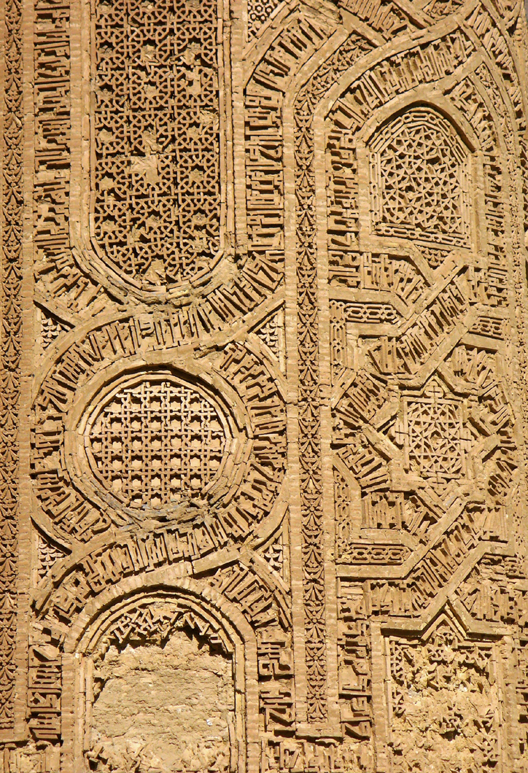 Gror Province, Minaret of Jam, brick decor